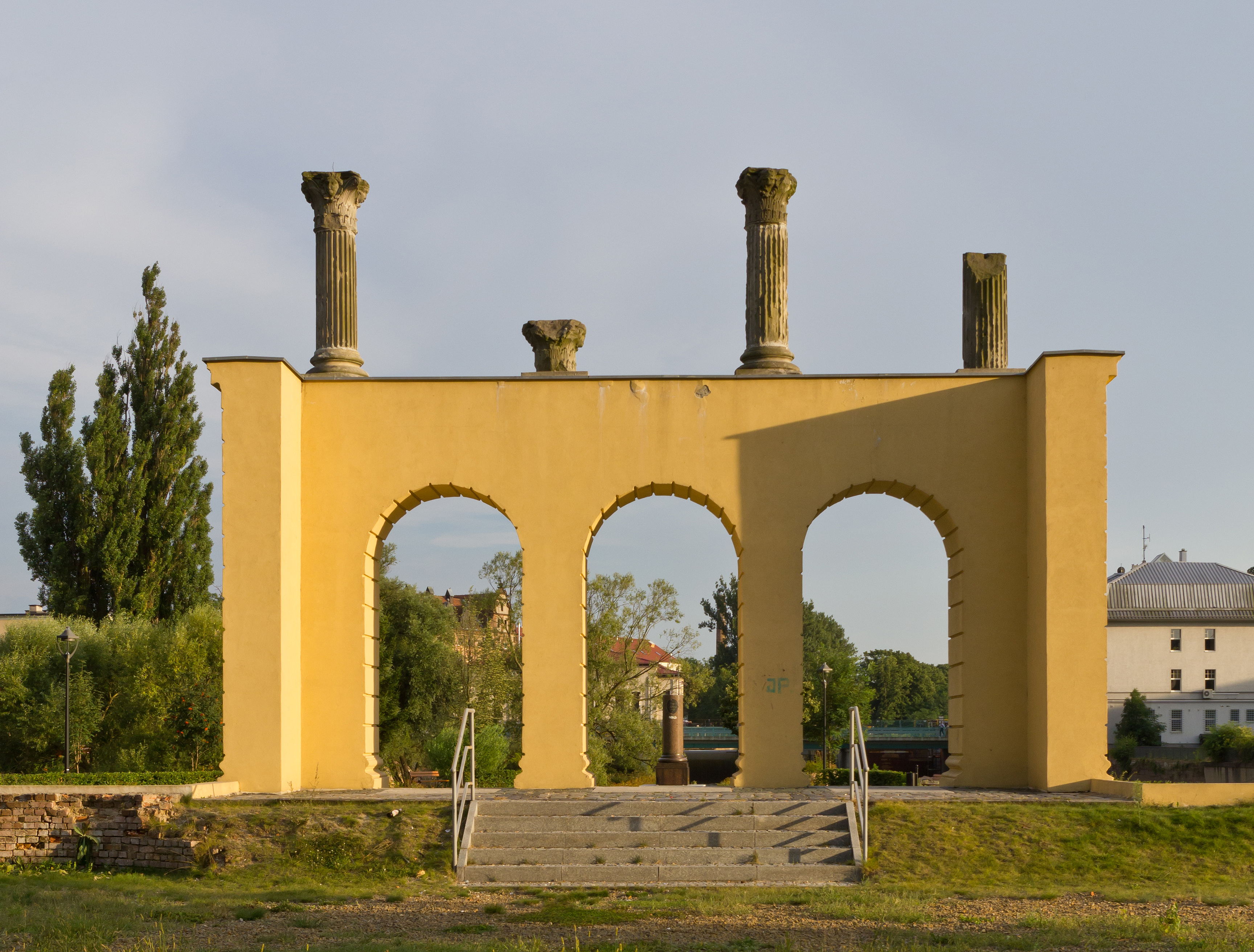 Ruins on the Theatre Island in Gubin, Lubusz Voivodeship, Poland